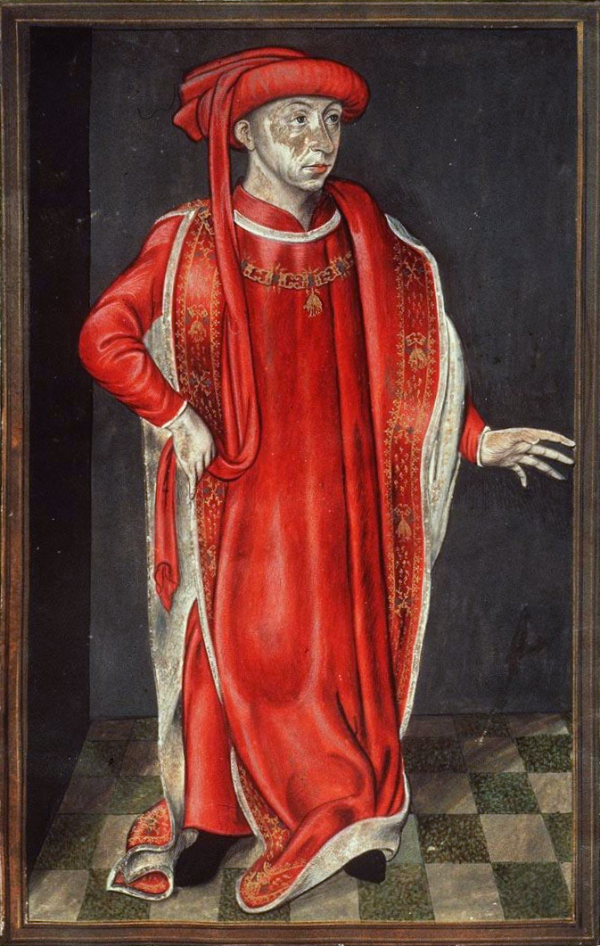 Philip the Good, Duke of Burgundy Contents: Statutes and armorial of the Order of the Golden Fleece Place of origin, date: Southern Netherlands; 1561. Added section (ff. 67-88) and miniatures: Southern Netherlands; 1601 Material: Paper (and vellum), ff. 88, 283x189 (245x155; after f. 67: 245x145/150) mm, several calligraphic scripts, Binding: 18th-century brown leather; gilt; with coat of arms of Stadholder William V Decoration: 93 paper pages with coats of arms painted over woodcut outlines Added: 3 full-page miniatures on vellum Provenance: Acquired c. 1601 by Philip William (1554-1618), the oldest son of Prince William of Orange, who was received in the Order of the Golden Fleece in 1598; by descent to the Princes of Orange-Nassau, the later Stadholders, at The Hague; transfered in 1798 to the then newly-erected National Library (now: Koninklijke Bibliotheek) Annotation: 3 leaves with miniatures lost before f. 17 (Charles the Bold), f. 22a (Maximilian of Austria), f. 37 (Charles V)